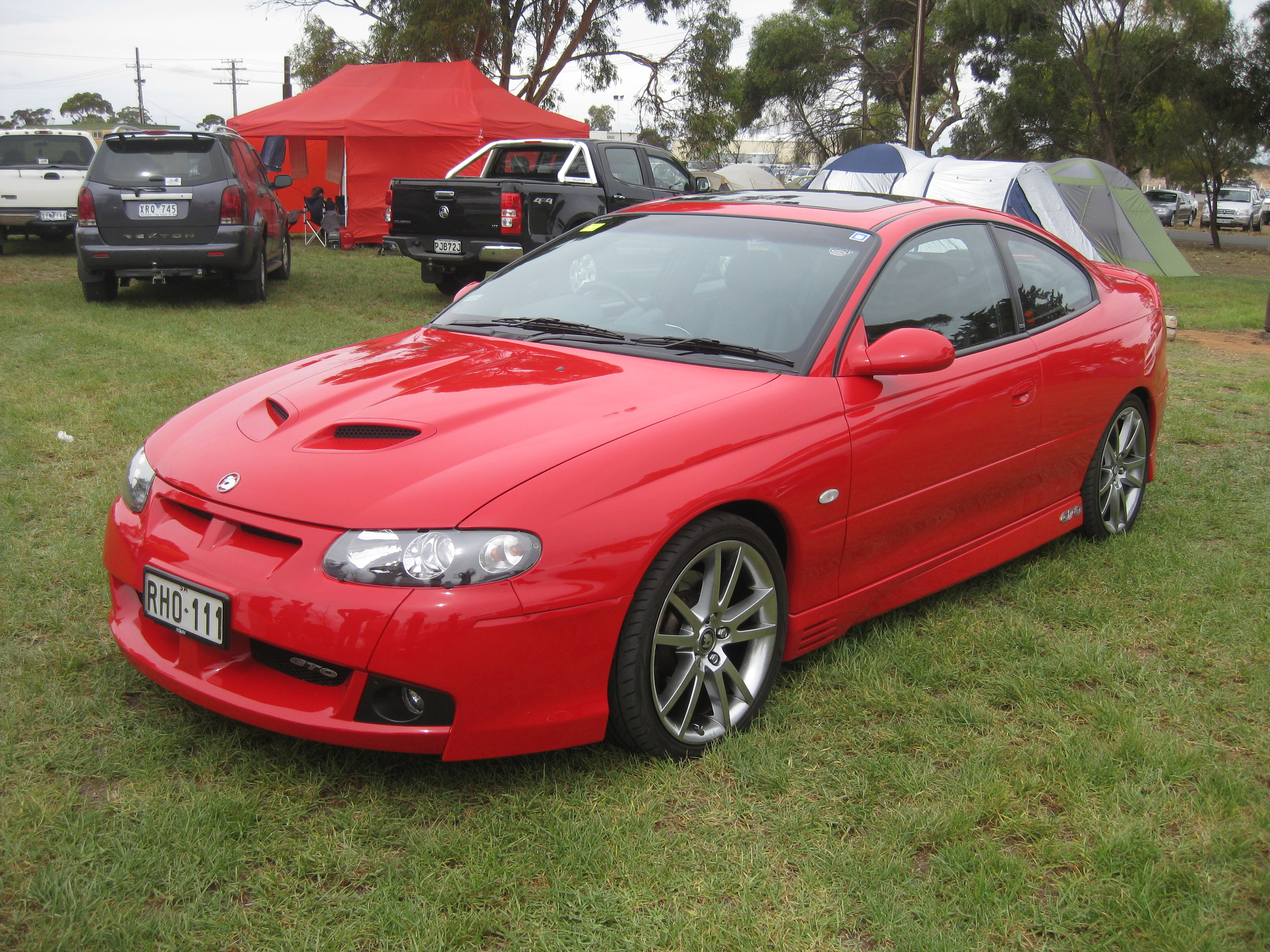 HSV VZ Coupé GTO